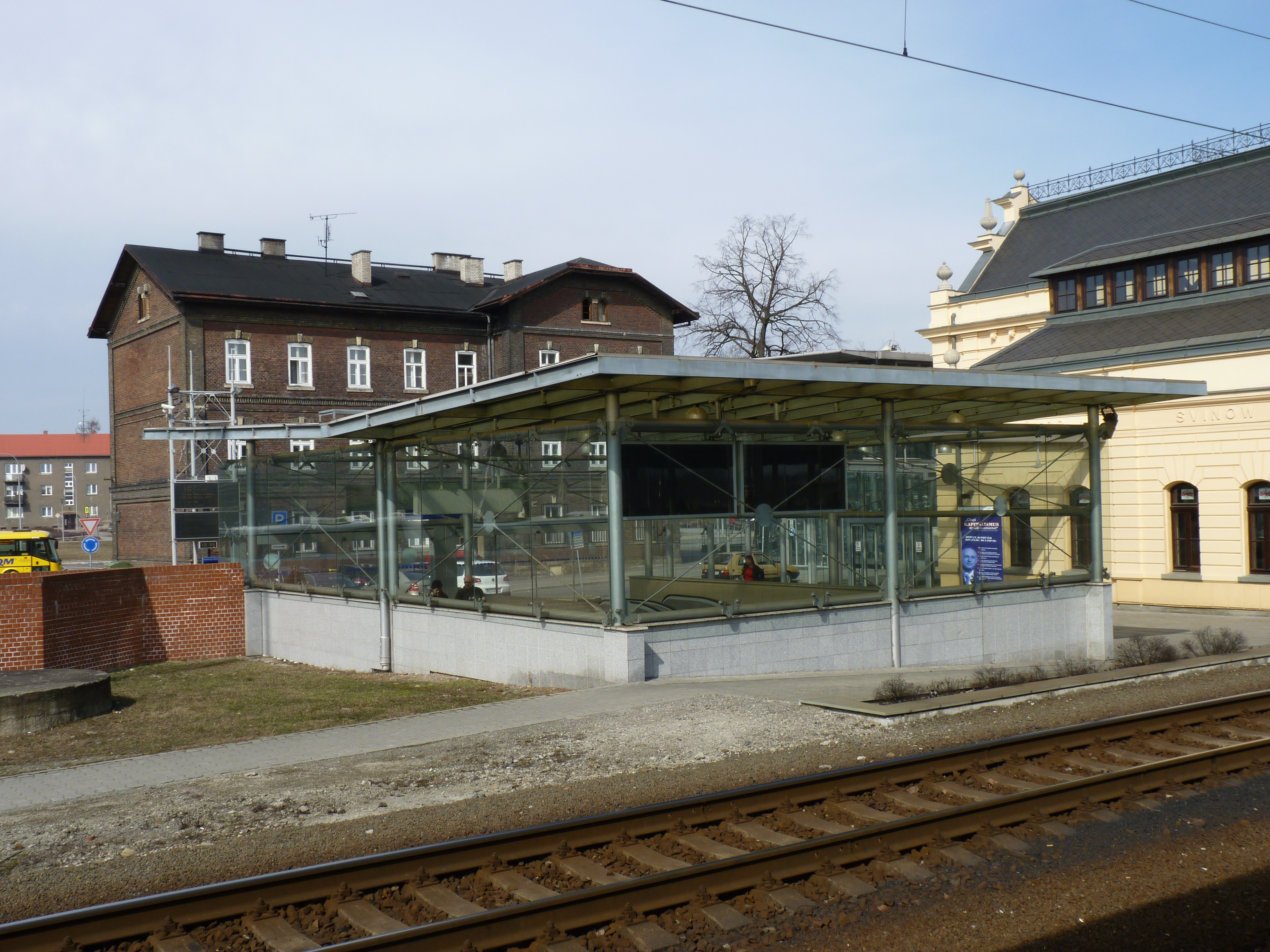 Ostrava Svinov, Moravian–Silesian Region, Czech Republic